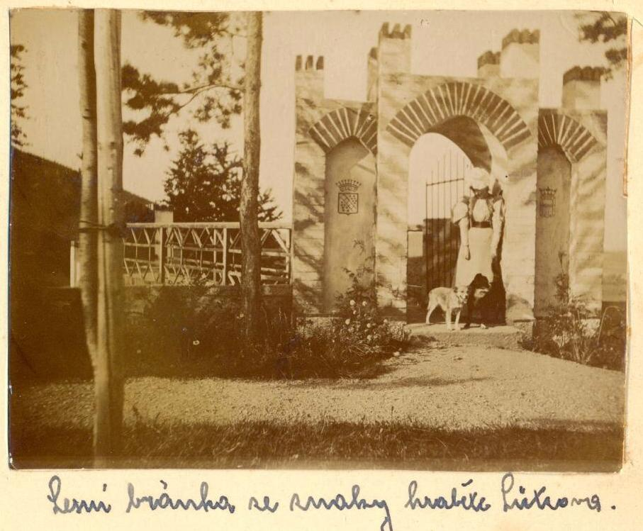 Vstup do horní části zámeckého parku přes dřevěnou lávku. Fotografie rok 1896